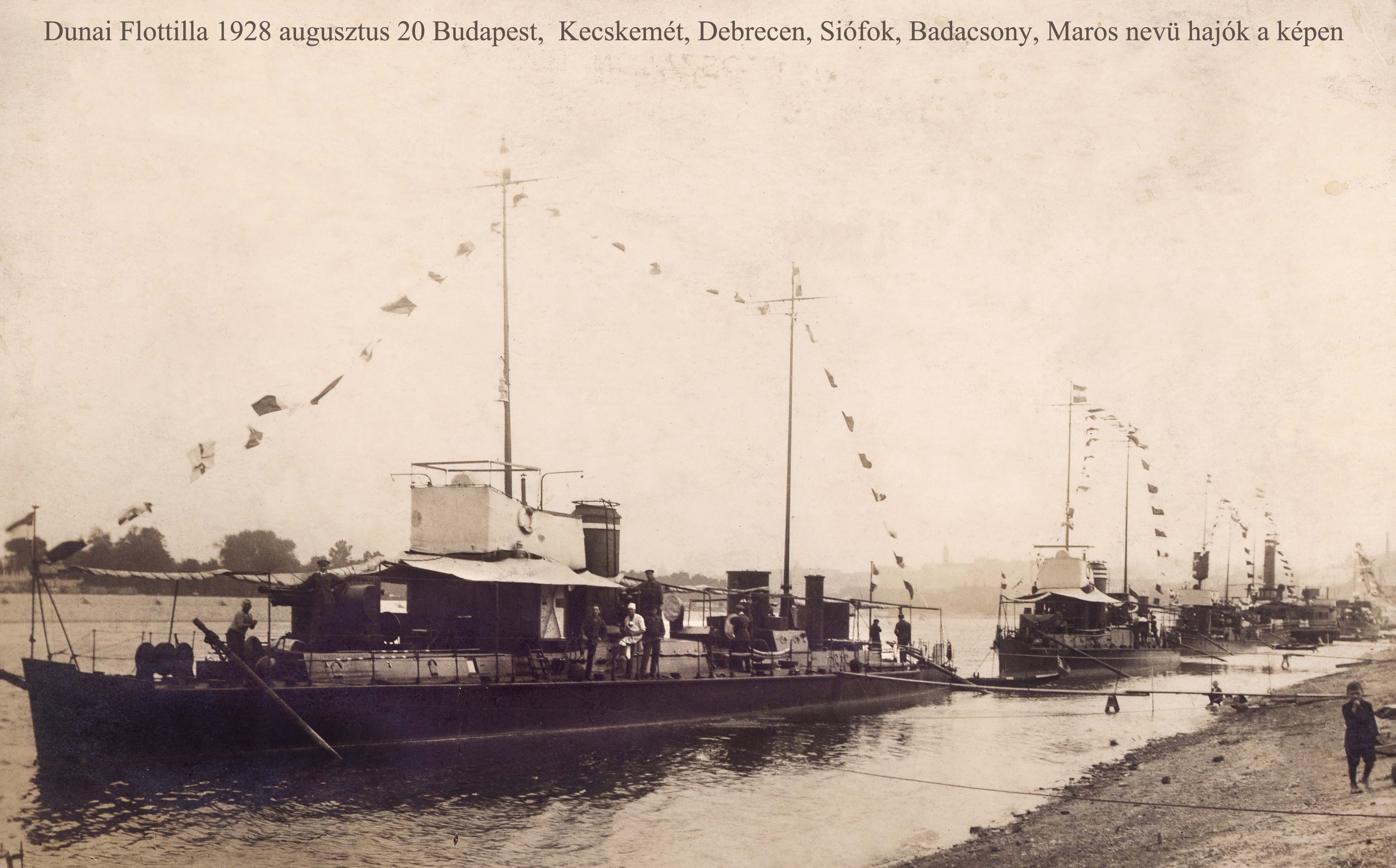 Postcard from 1928